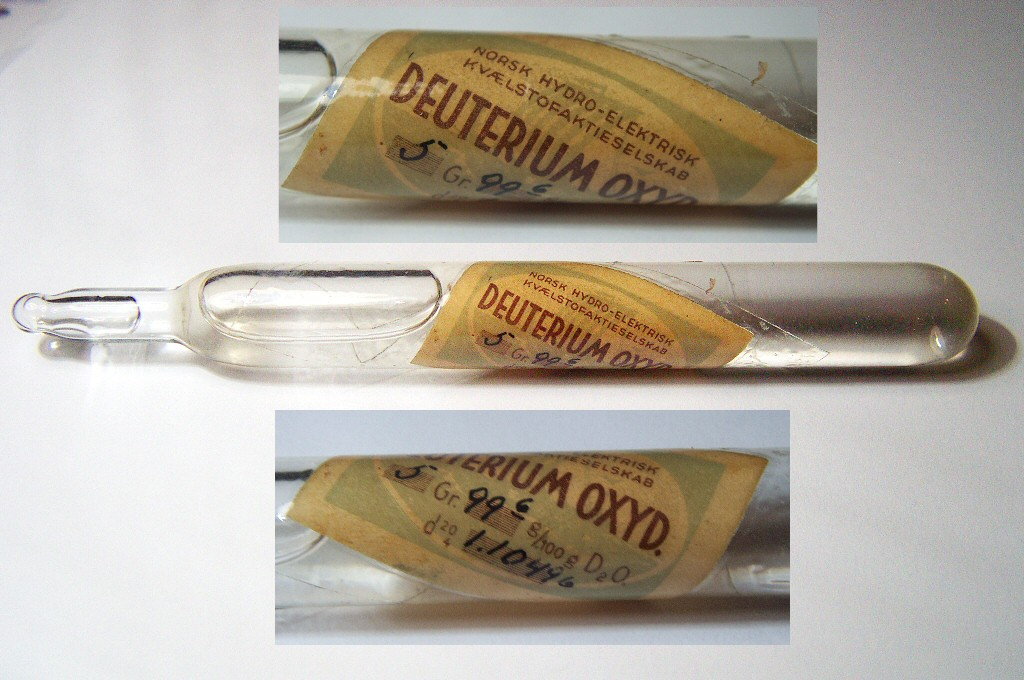 A historical sample of "heavy water", packed in a sealed capsule. Manufacturer: Norsk Hydro